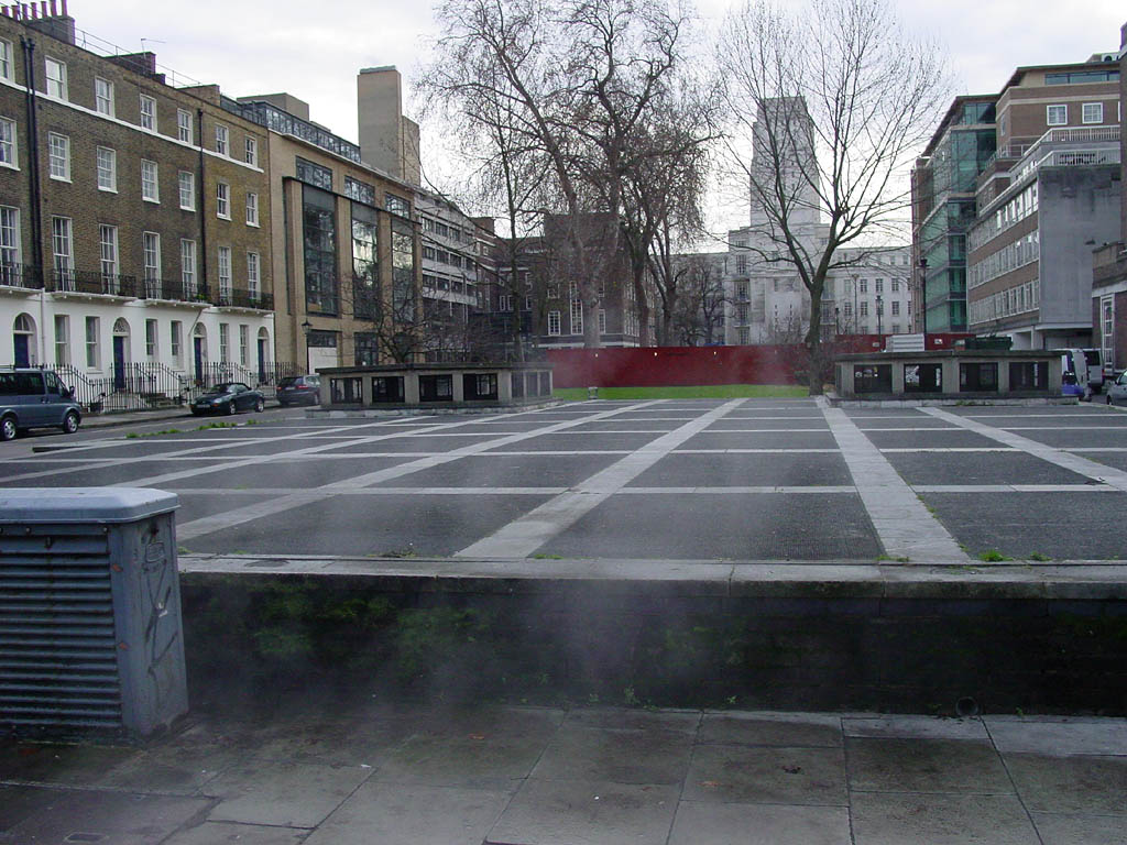 Torrington Square